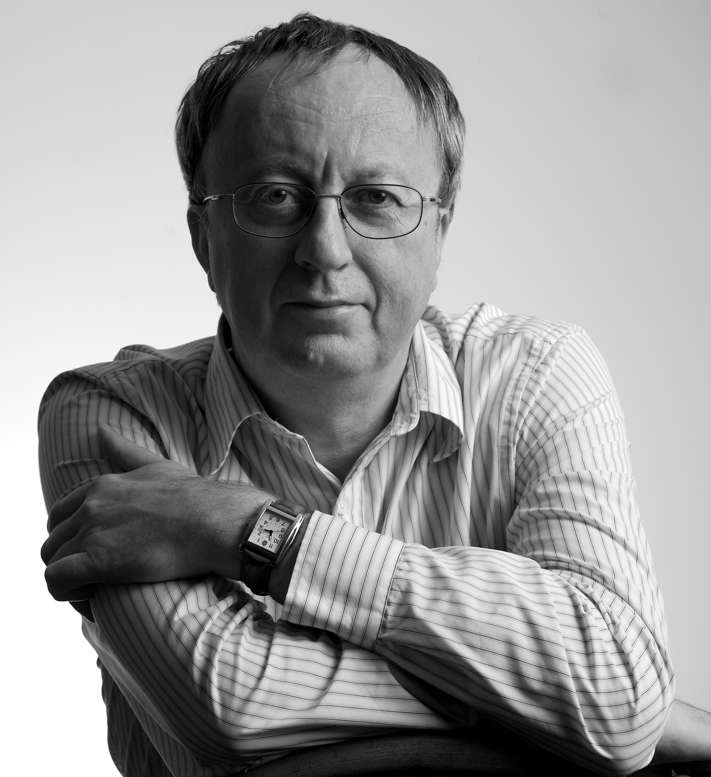 Stock publicity photo of David Hewson.